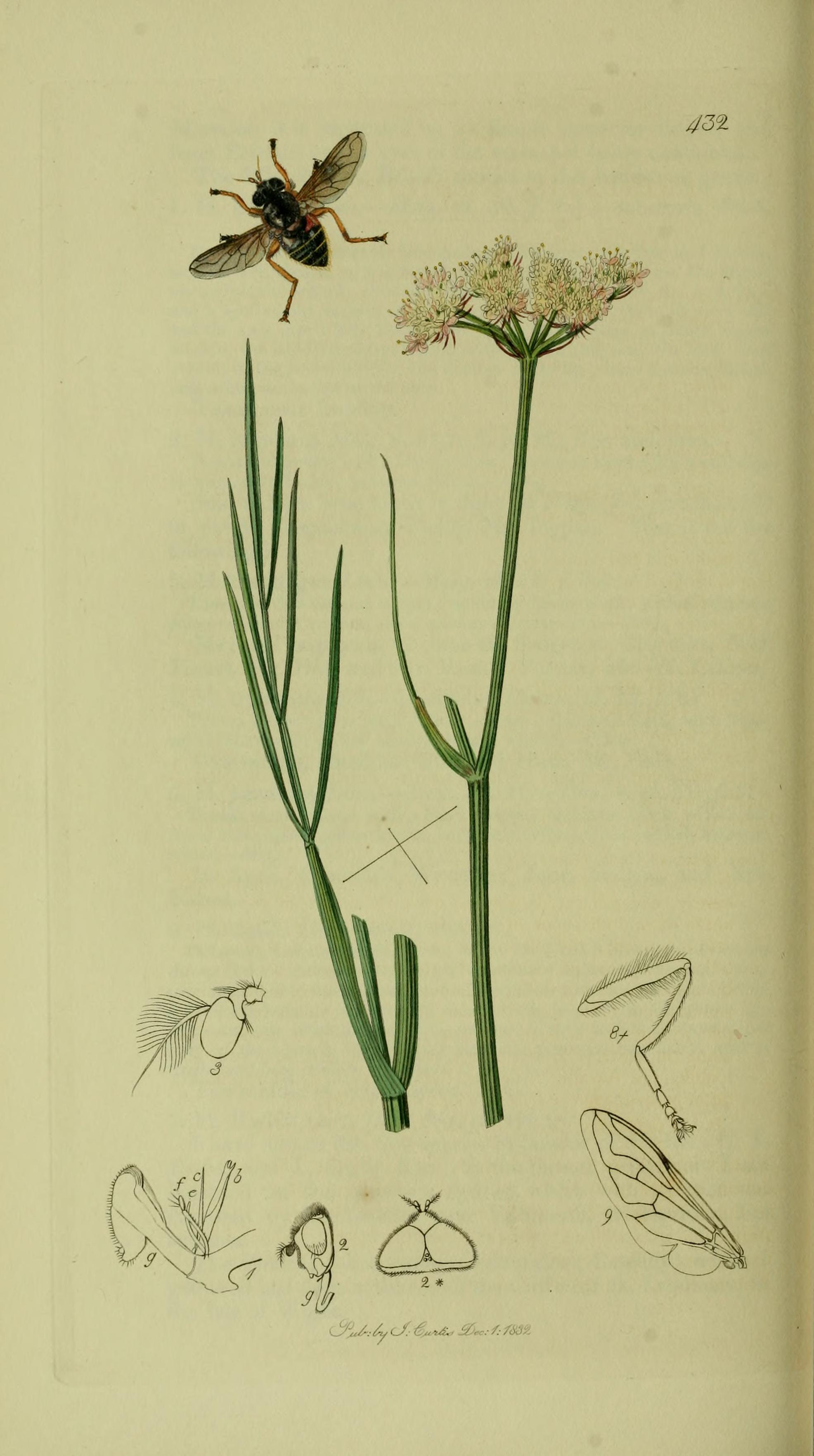 John Curtis British Entomology (1824-1840) Folio 432 Eristalis nubilipennis = Eristalis cryptarum (Beautiful Hover-Fly). The plant is Oenanthe pimpinelloides (Parsley Water Dropwort).